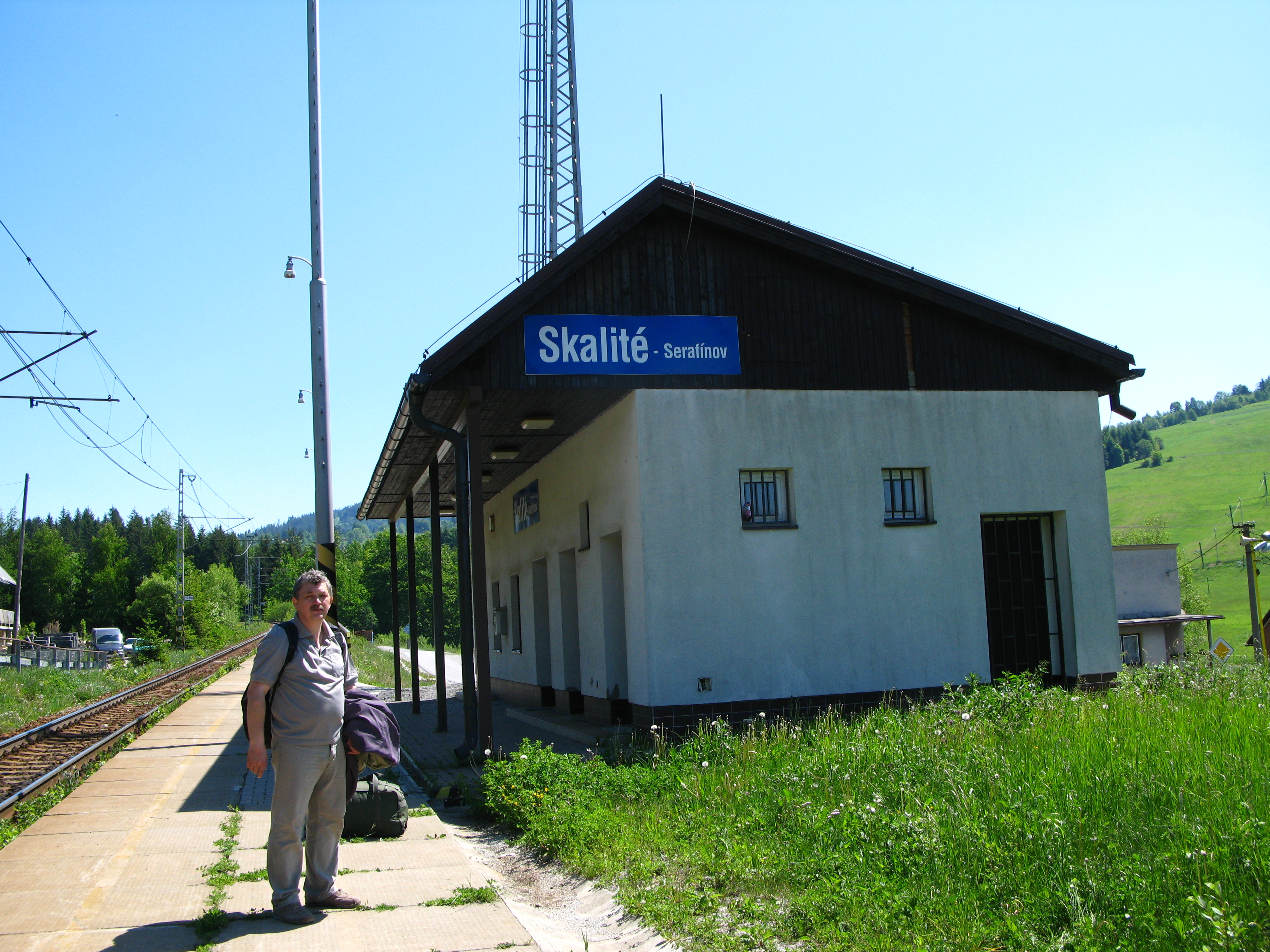 Skalité Serafínov train station in Slovakia, near Zwardoń in Poland